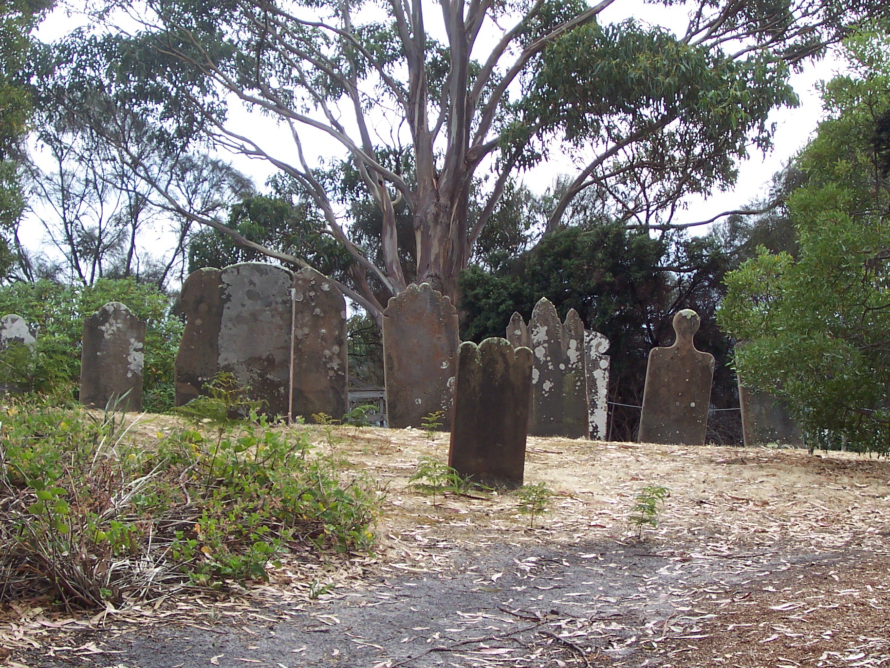 Photo of gravestones on Isle of the Dead in Port Arthur's harbor in Tasmania.